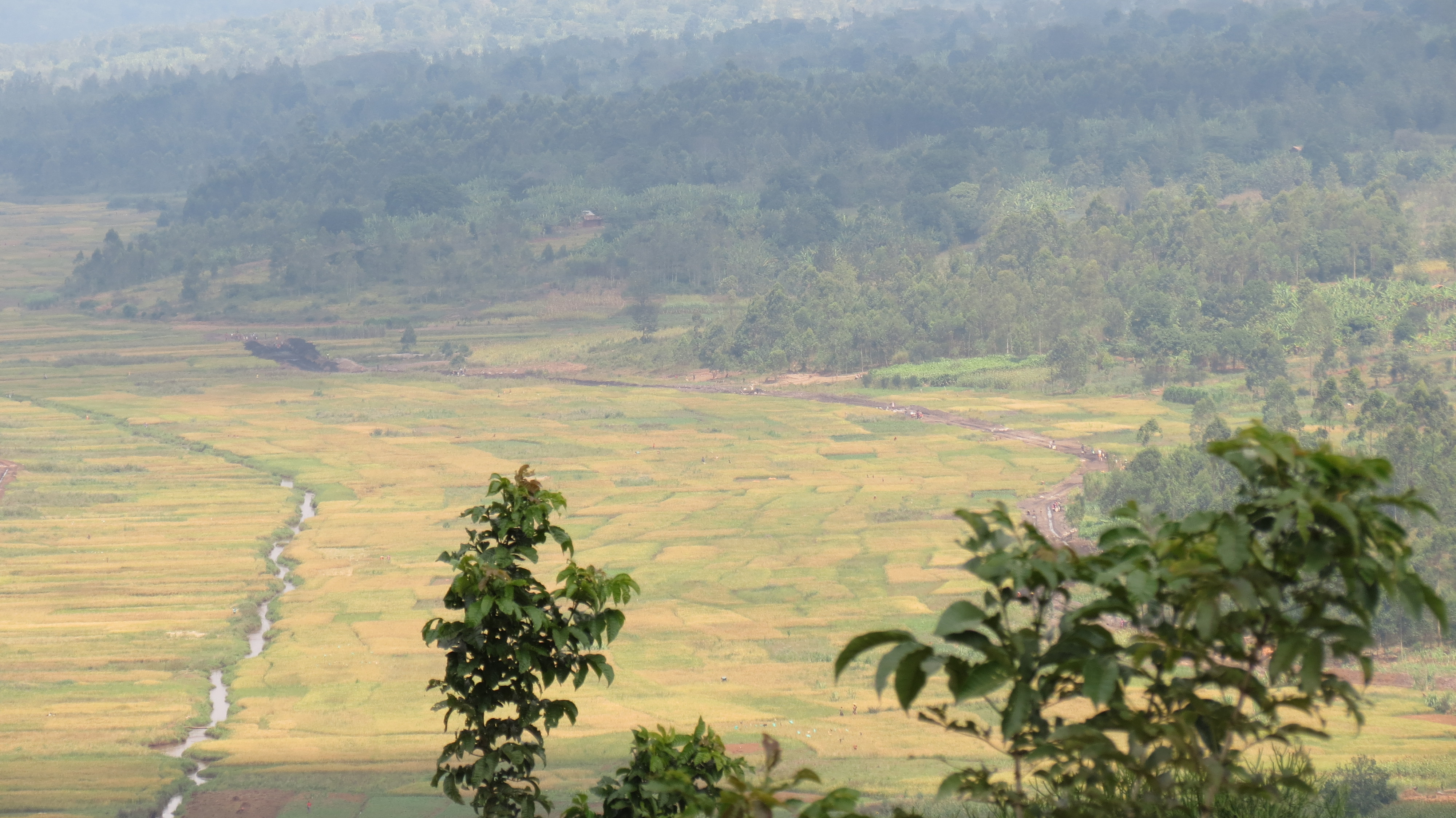 CubeMEDIA, PLATEAU This is an image of "African people at work" from Burundi